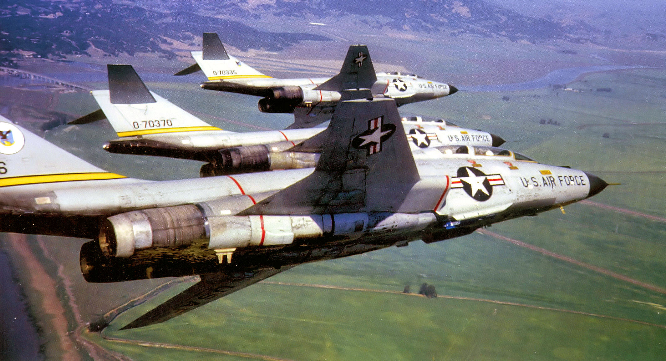 84th Fighter-Interceptor Squadron Hamilton Air Force Base, California May 1968 McDonnell F-101B-95-MC Voodoo 57-370 identifiable